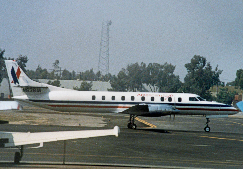 Swearingen SA227AC Metro N638AV of Wings West Airlines operating for American Eagle at Orange County Airport in 1986